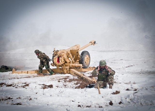 Two Afghan National Army soldiers, from the 4th Kandak, 2nd Brigade, 203rd Corps, fire a D30 howitzer during a live-fire certification, March 13. Having successfully certified, the battery will now reposition to Forward Operating Base Orgun-E, Paktika province, to support operations along the Pakistani border. (Photo ID: 543620)